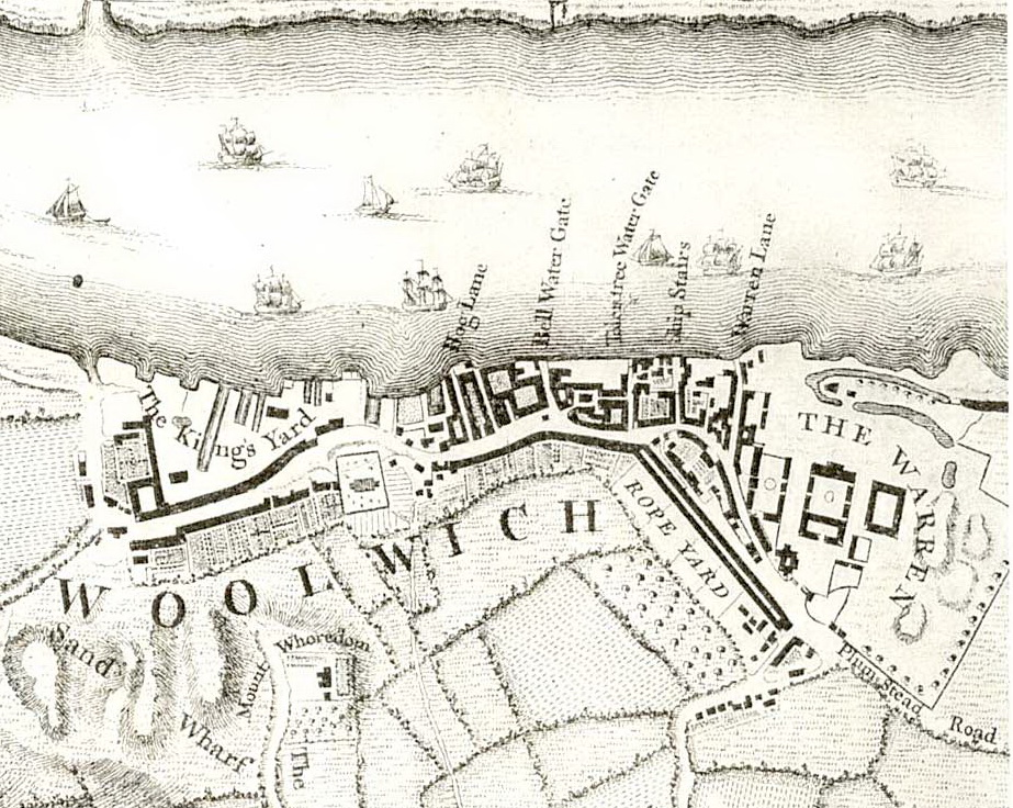 Detail of a map of Woolwich in the 18th c. Engraved by Richard Parr, surveyed and published by John Rocque, 1746.